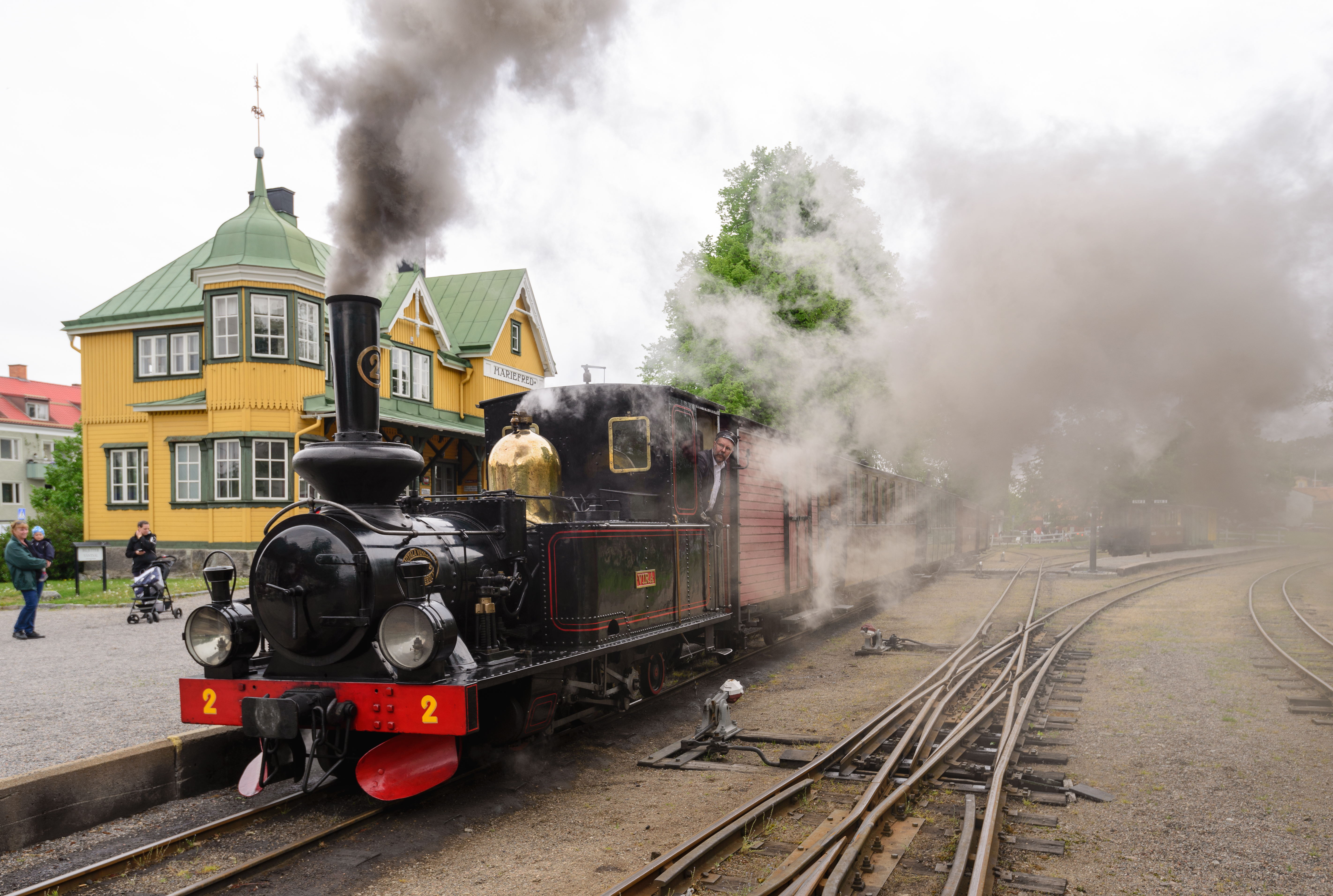 Östra Södermanlands Järnväg, a 600 mm (1 ft 11 5⁄8 in) narrow gauge railway in Mariefred, Sweden. Train at Mariefred railway station.